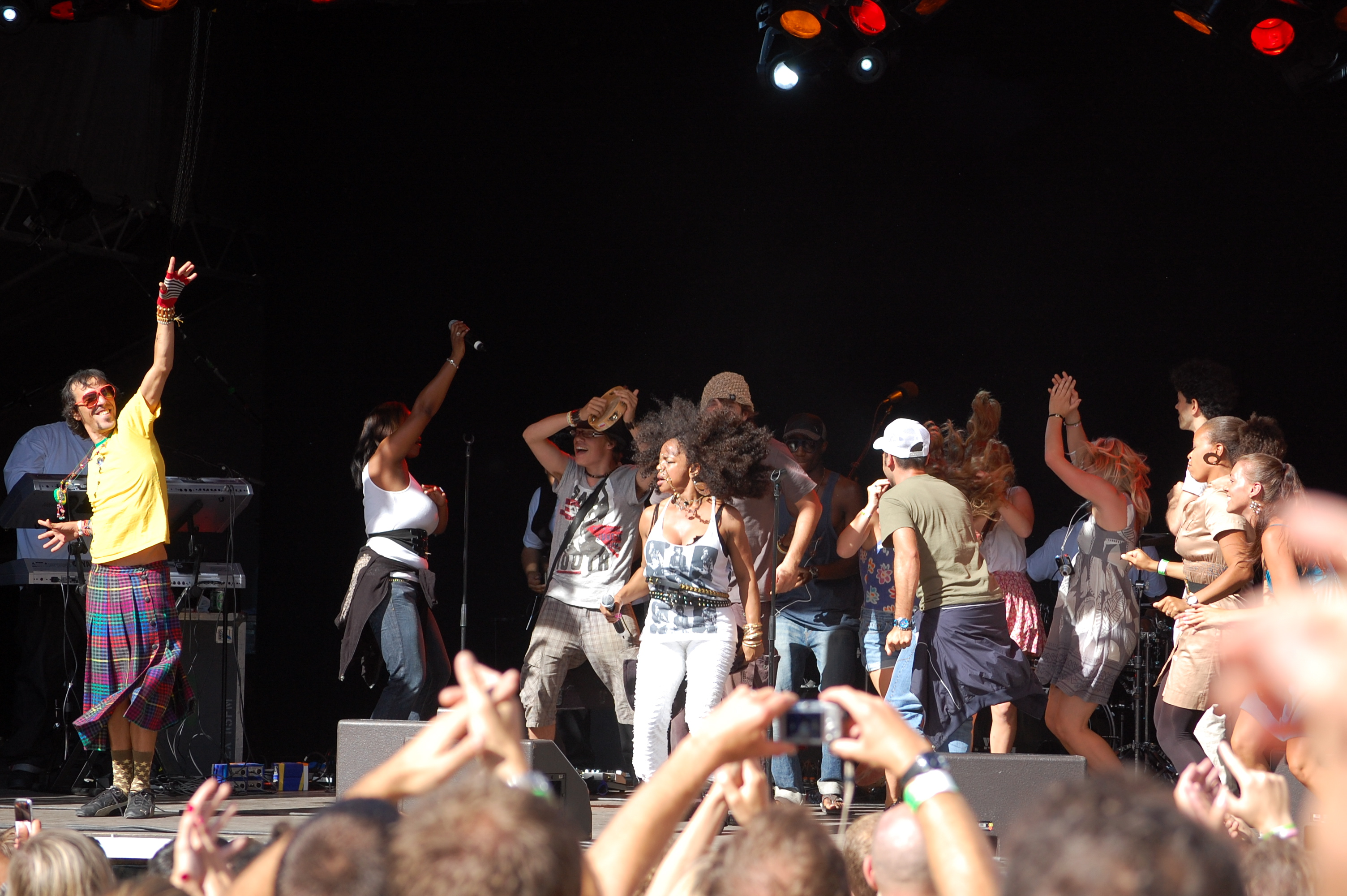 Leela James live in Stockholm Jazz Festival 2009.